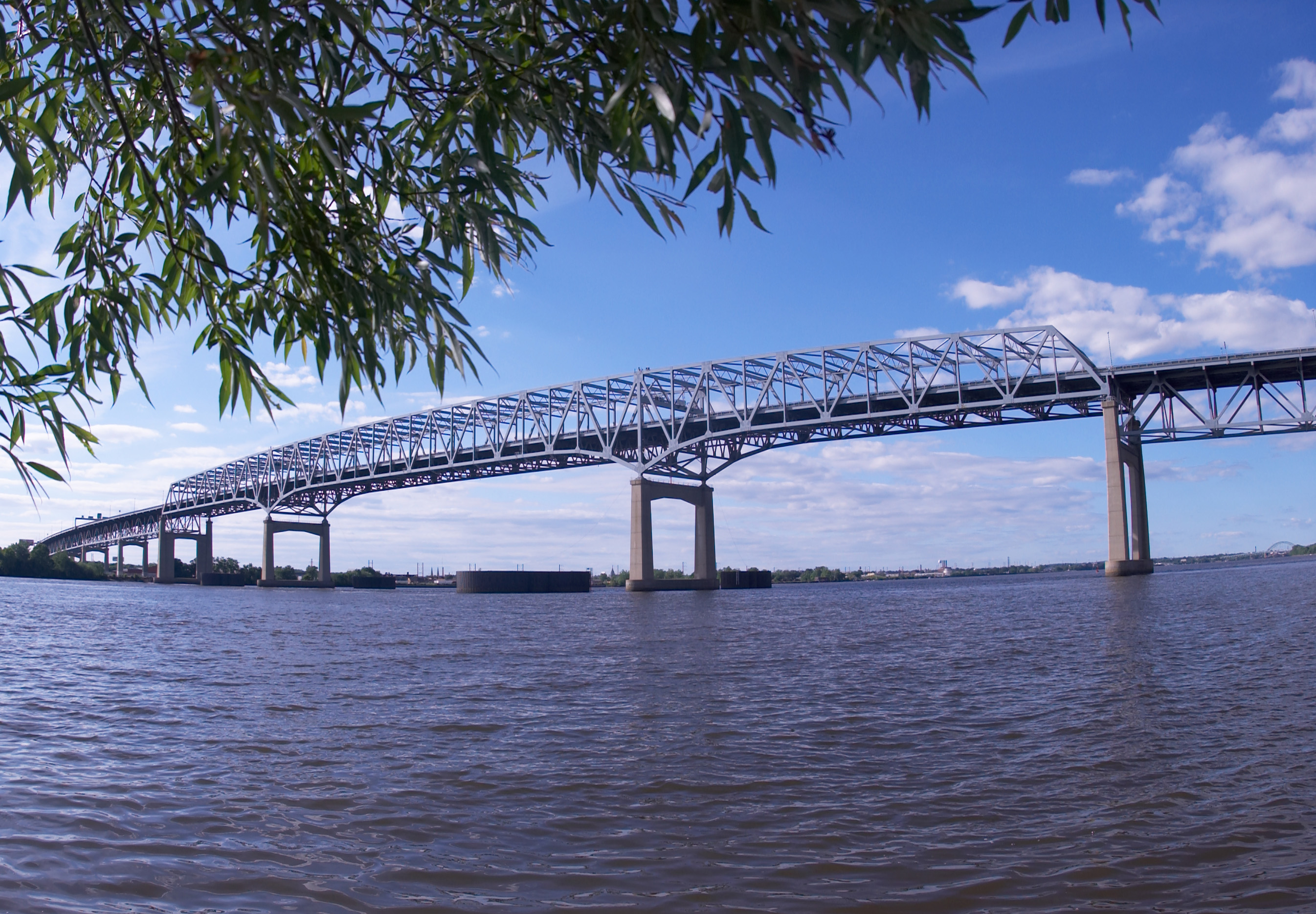 Betsy Ross Bridge, next to Philadelphia, Pennsylvania